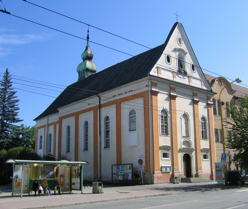 Žilina, st. Barbara church